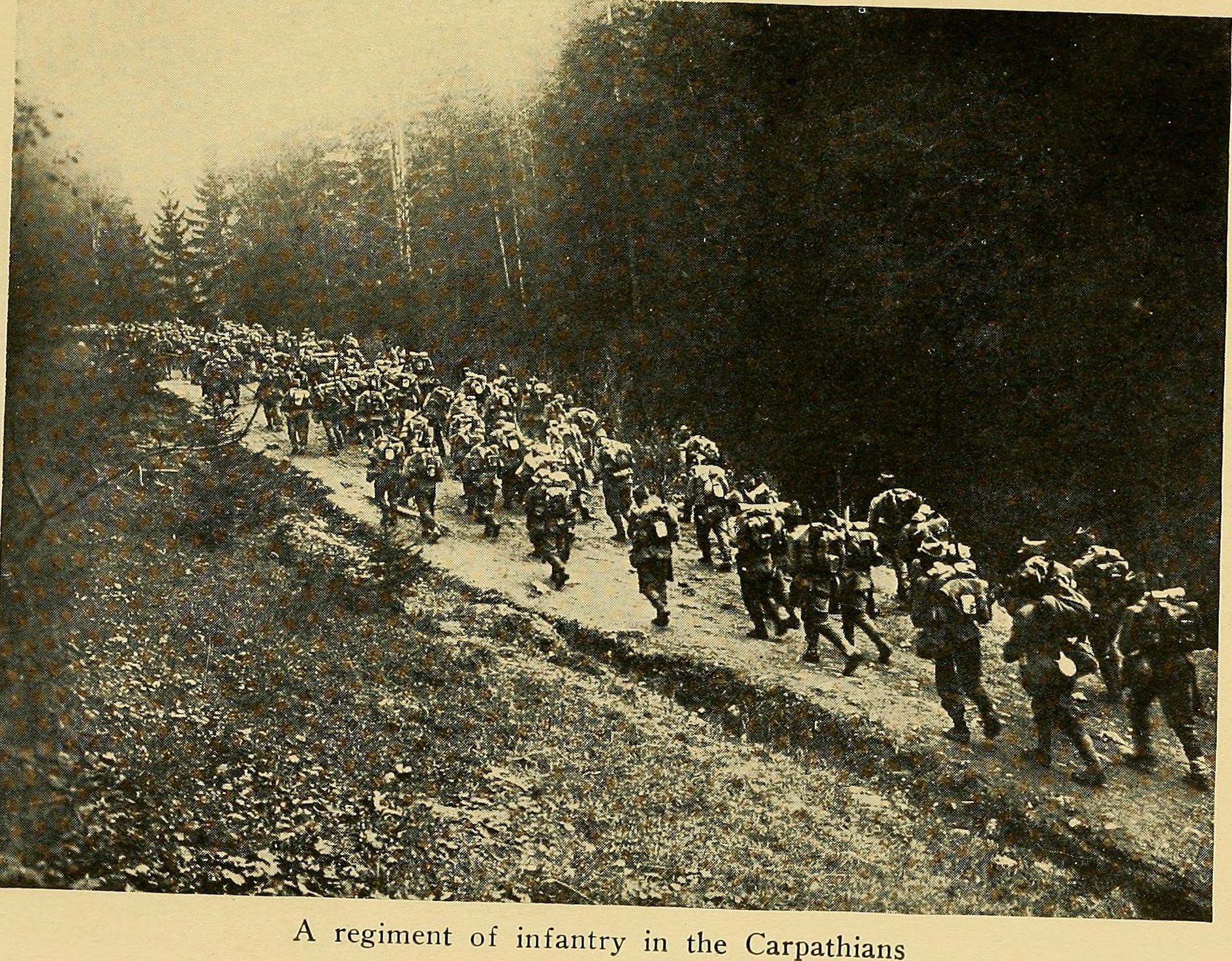 A regiment of infantry in the Carpathians Title: Rumania's sacrifice; her past, present, and future Year: 1918 (1910s) Authors: Negulesco, Gogu Wainwright, Charlette Hortense de Schryamaker Mrs., 1861- tr Subjects: World War, 1914-1918 Publisher: New York, The Century co Text Appearing Before Image: entionists,among the pro-Allies and the pro-Germans.At the same time the intei^entionists eagerly-urged the king and the Government to give uptheir neutrality and to enter the war on the sidefavored by each of these groups. THE SECOND CROWN COUNCIL This merciless struggle continued until thetwenty-seventh of August, 1916, when KingFerdinand convoked the second Council.^ Onthis occasion the chief of the Government, Mr.Bratiano, declared himself for immediate en-trance into war on the side of the Entente.Mr. Marghiloman did his best to prevent anyaction of his country, and Mr. Carp upheld,with the same force as in the first council, Ru-manias entrance on the side of Germany. 1 Mr. Stere, deputy and professor at the University of Jassy,a liberal socialist and personal friend of Mr. Bratiano, waspublishing at this time a review which was greatly appreciatedand in which he demonstrated the miserable state of affairs ofRussia and the grave danger, should Rumania rally to thecause of Russia. Text Appearing After Image: i